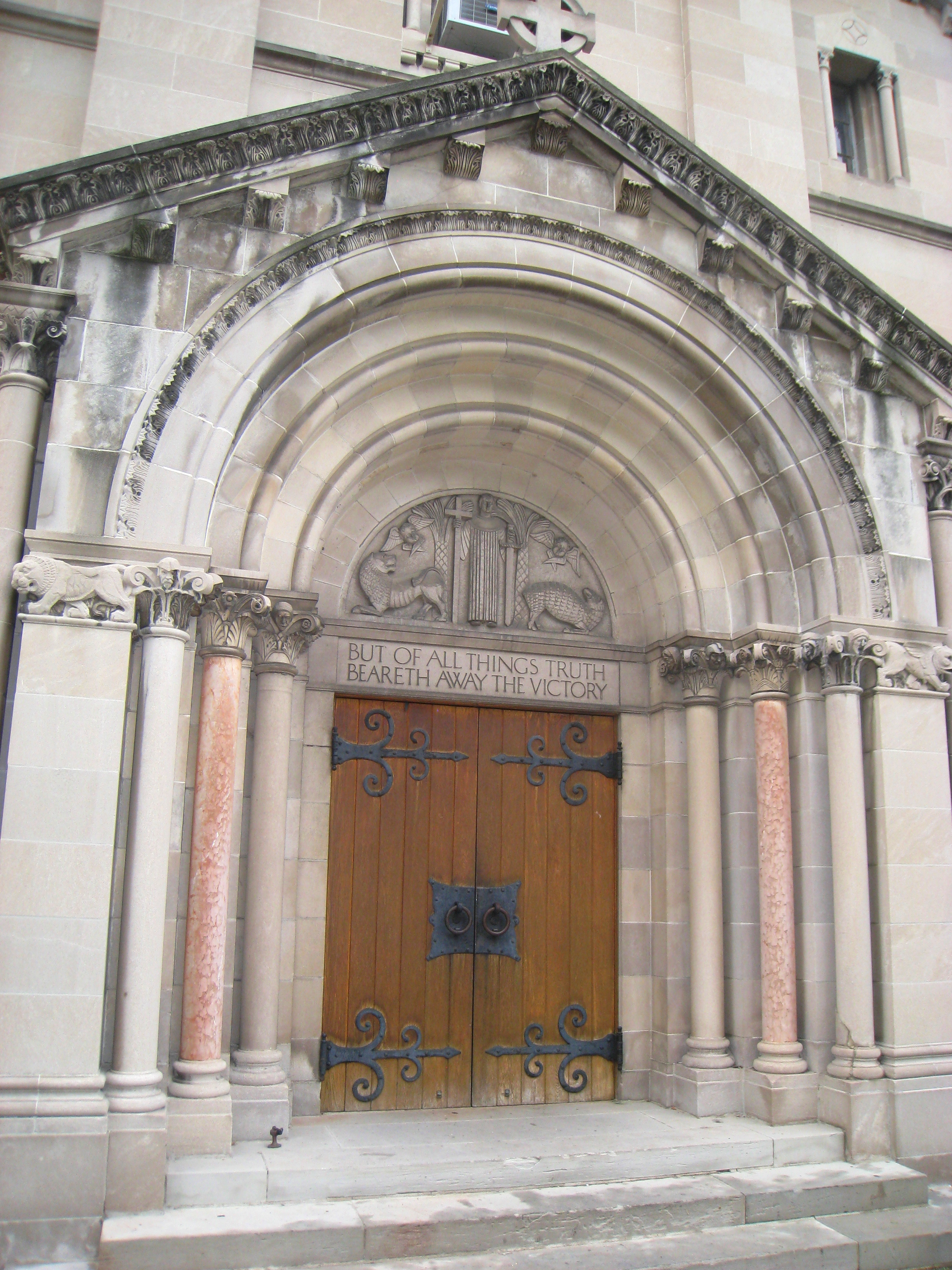 Bosworth Hall, Oberlin College, Oberlin, Ohio, USA. Architect Cass Gilbert.